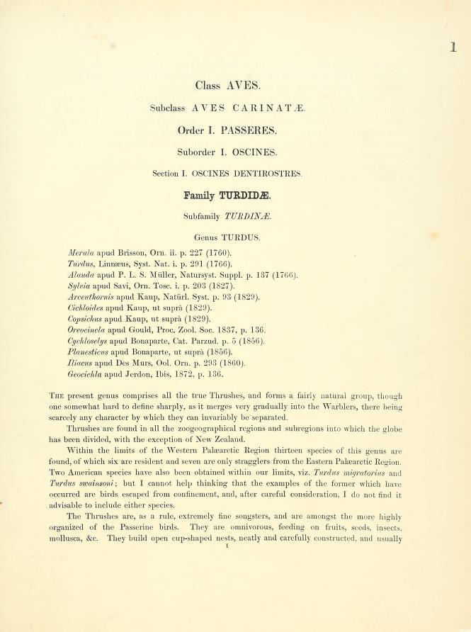 A History of the Birds of Europe, by Henry Eeles Dresser vol2 p1